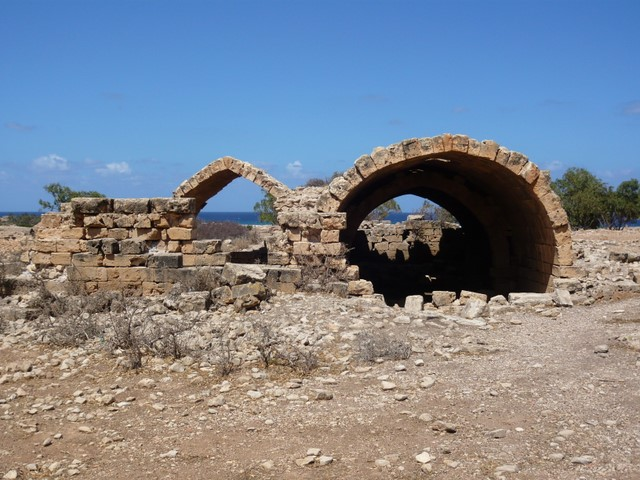 Ptolemais Byzantine Cistern